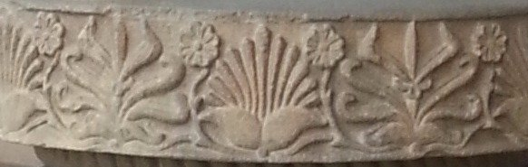 Rampurva bull capital detail. Rampurva bull in Presidential Palace high closeup